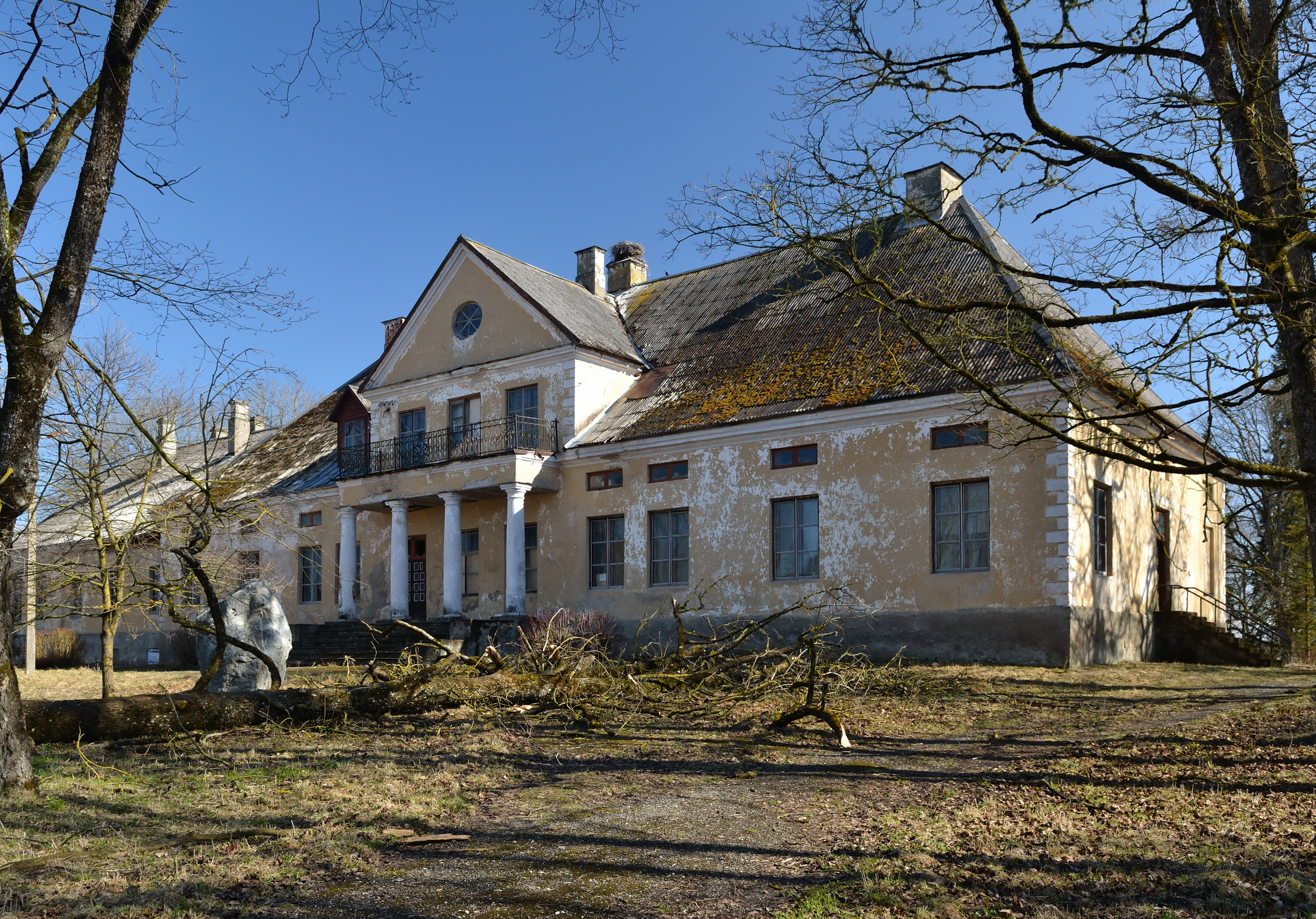 Karinu manor main building